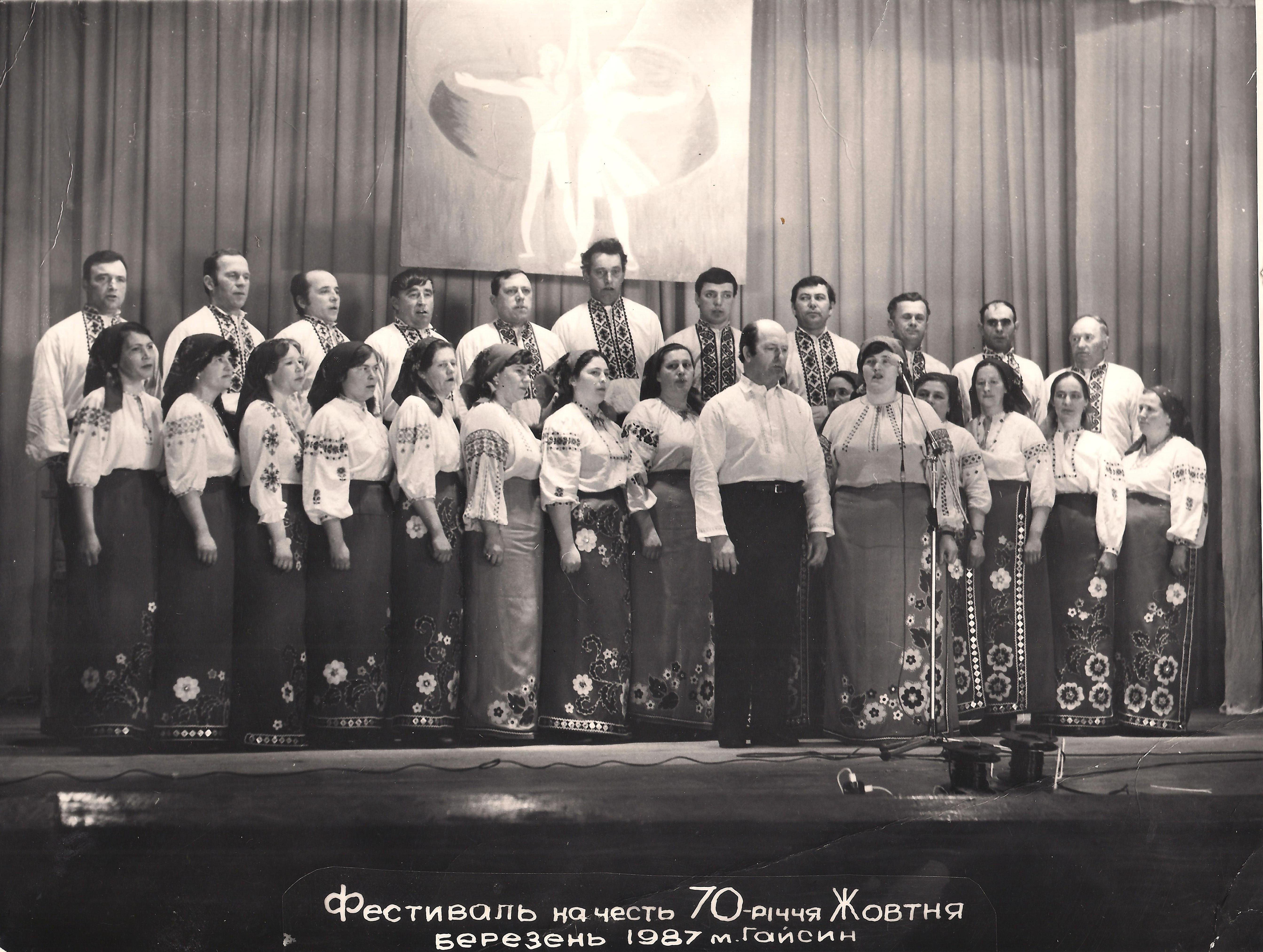 Виступ сільського колективу художньої самодіяльності в районному будинку культури (солісти: Войтенко Володимир Ілліч – голова сільської ради та Губанова Валентина)